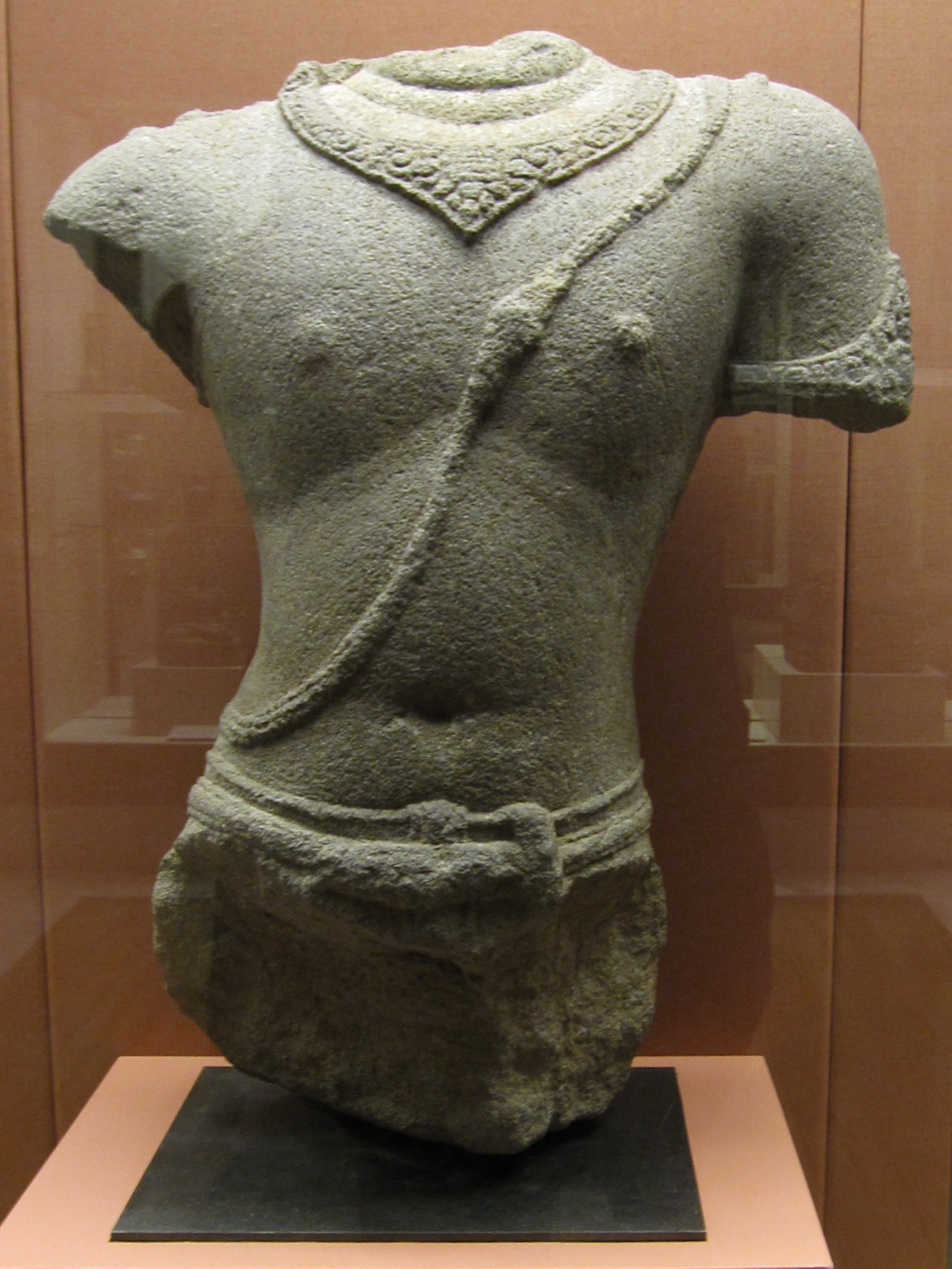 Torso, possibly of a bodhisattva. Java, late 9th century CE. This figure may be that of the Bodhisattva Avalokiteshvara, the best known of the Buddhas-to-be. His princely ornaments and long hair down his back distinguish this torso from most Buddha images, which are usually more simply attired. Brooke Sewell Fund. OA 1974.7-24.1. British Museum.